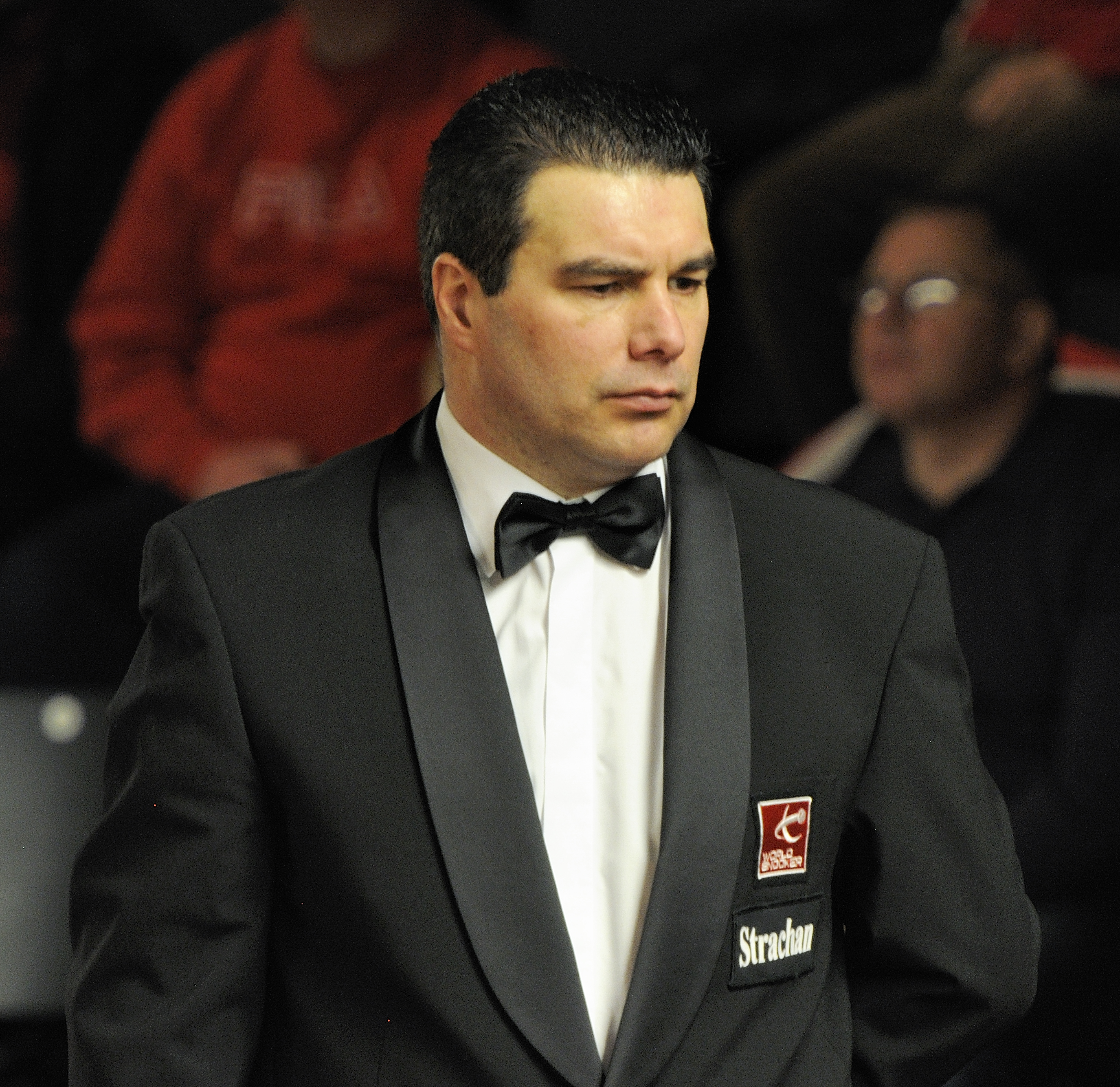 Picture taken in Berlin during the Snooker German Masters in 2014. Ben Williams.